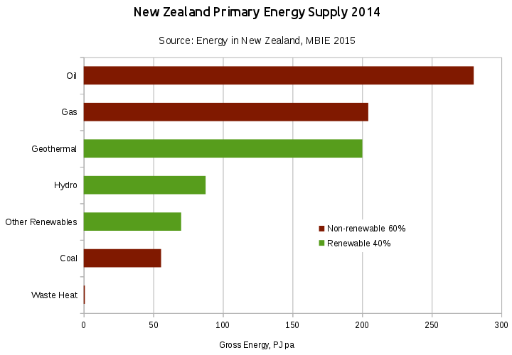 Graph of New Zealand primary energy by type 2014